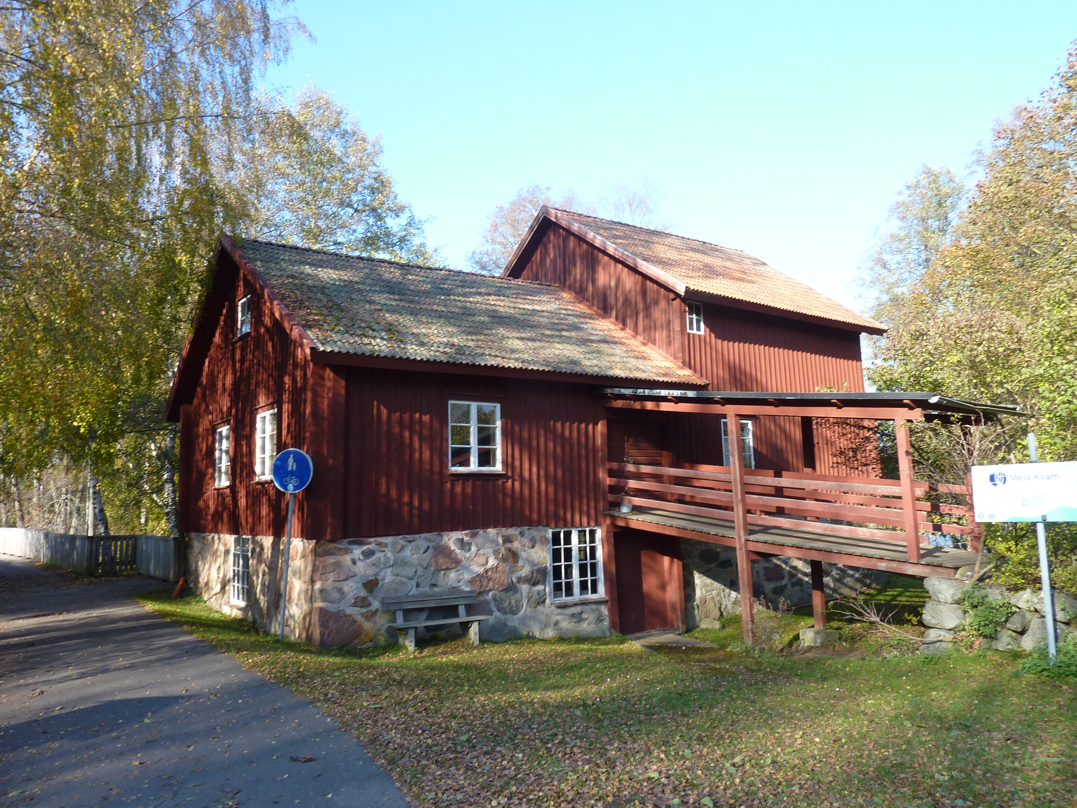 A mill called "Mela Kvarn". It means the mill of Mela. Located in Bäckseda, Vetlanda